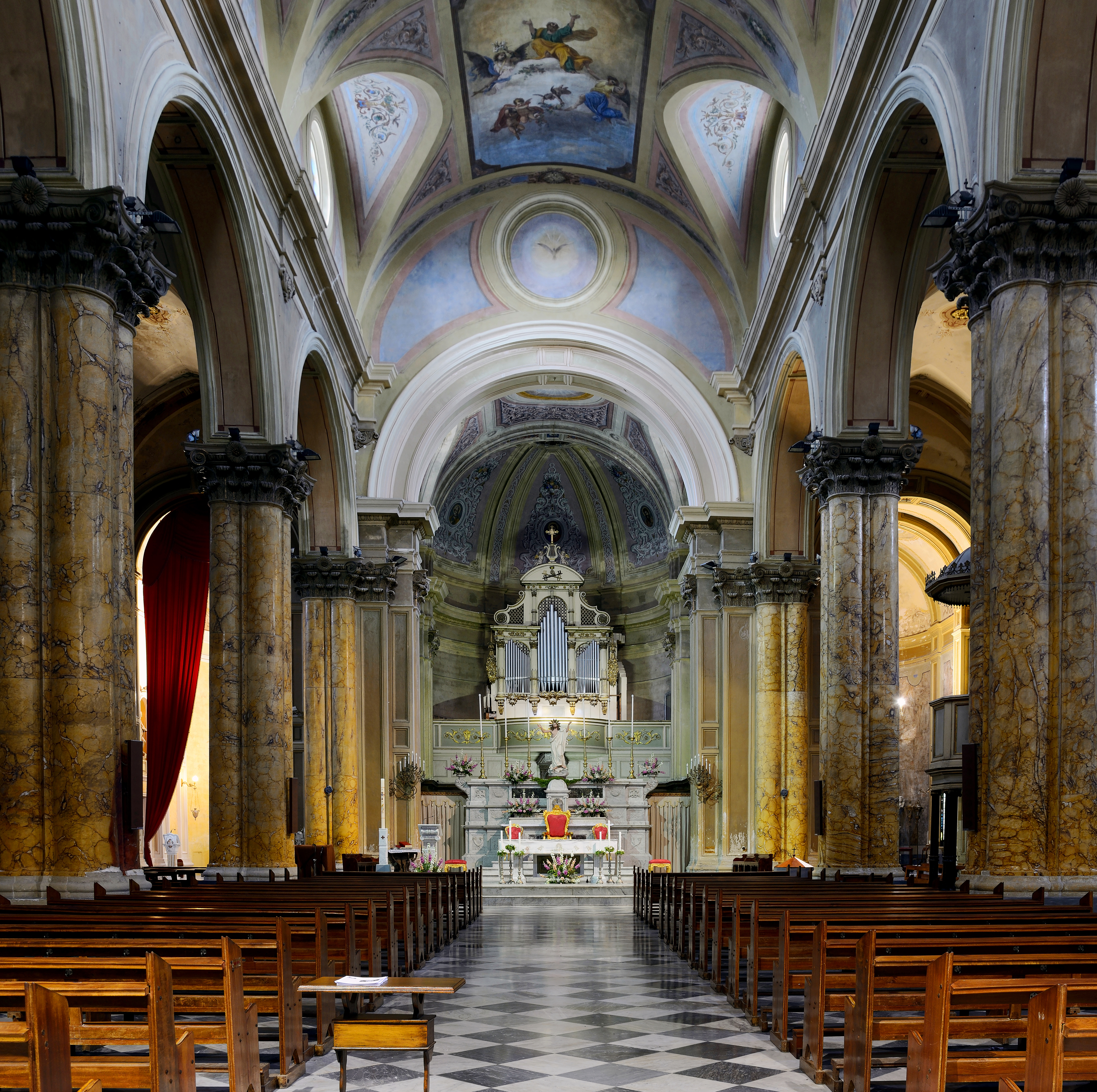 Ss. Pietro e Paolo (Galatina) - Interior